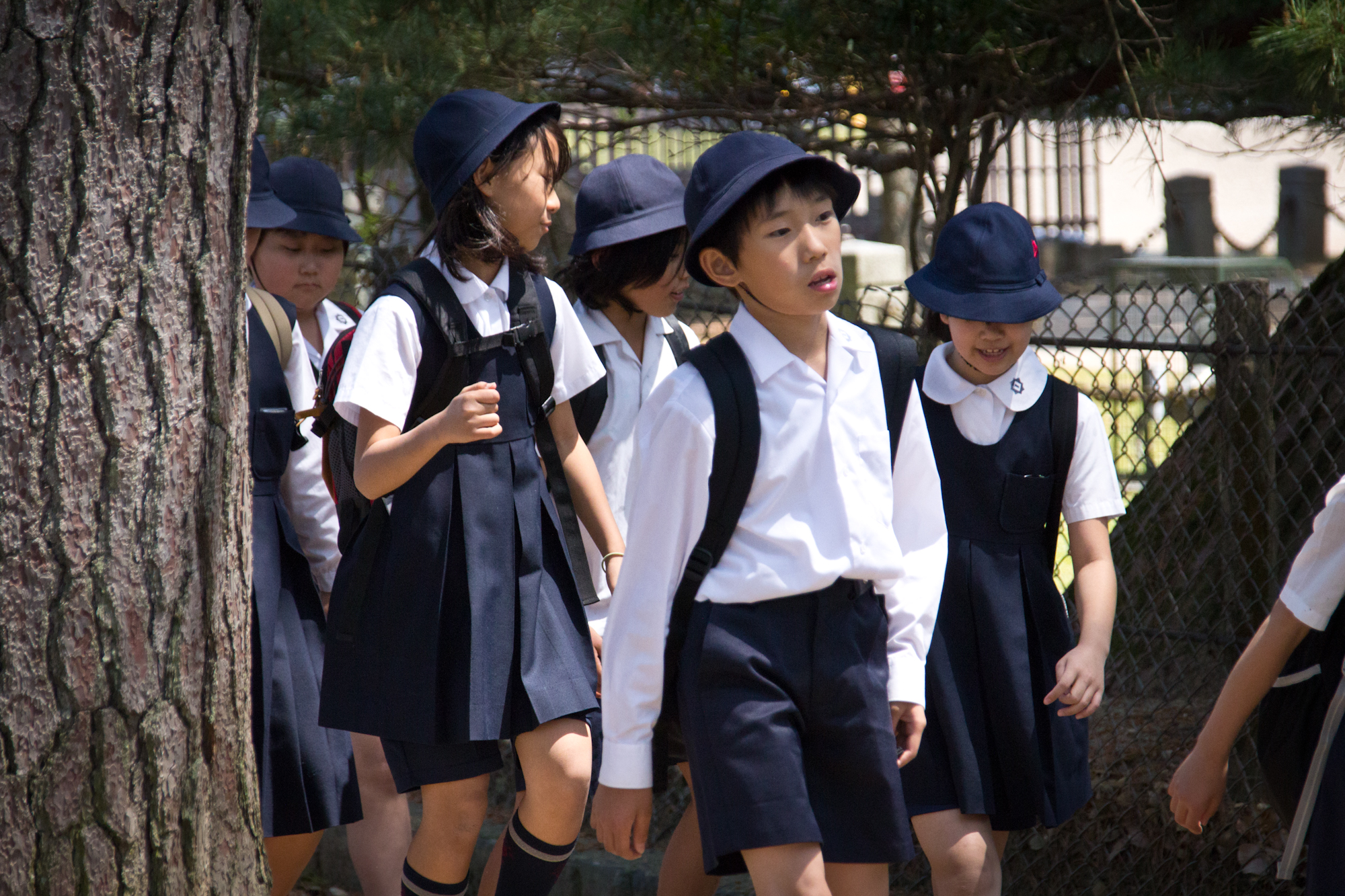 A group of school children of Nara, Japan.